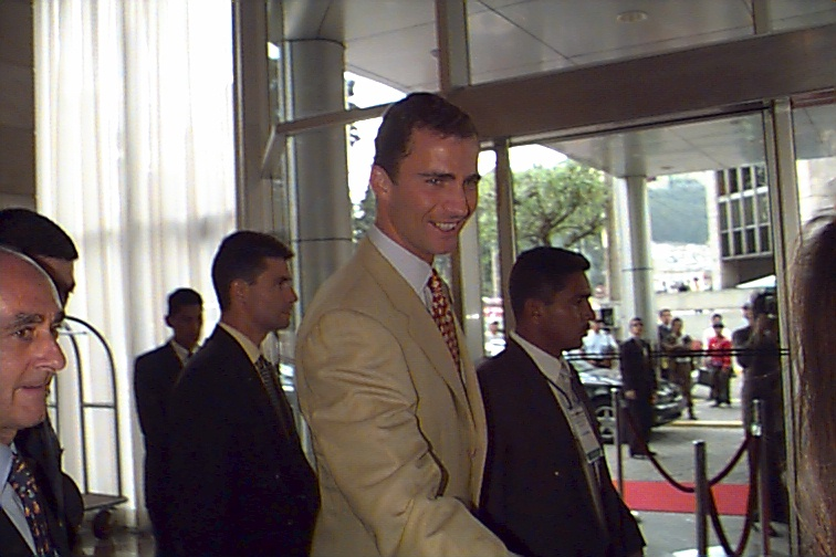 Felipe de Borbón y Grecia visiting Ecuador in 1998